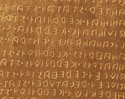 Fragment of a Tablet from Agnone (250 b.C.) The original is in the British Museum of London.